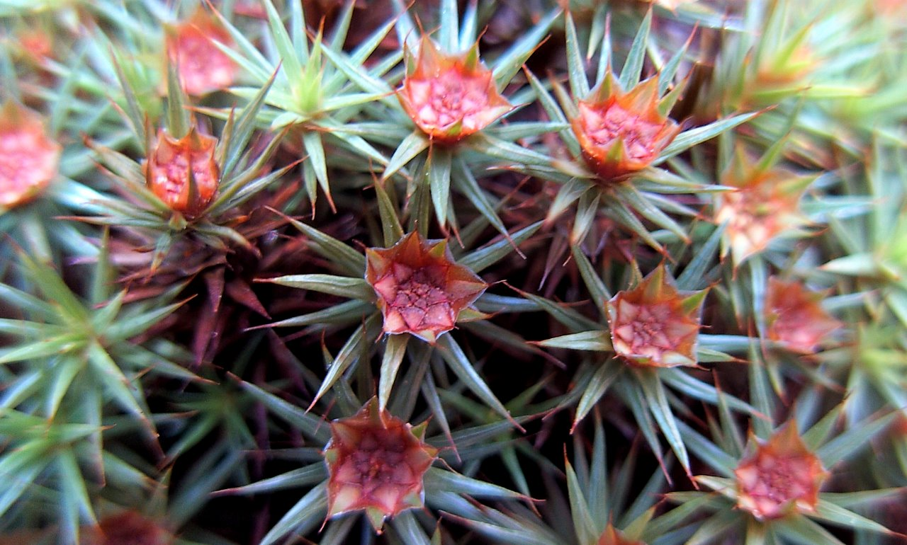 Antheridia In some species of m oss, shoots carrying male reproductive organs (antheridia) can look just like small flower heads. Polytrichum juniperinum? Oberon